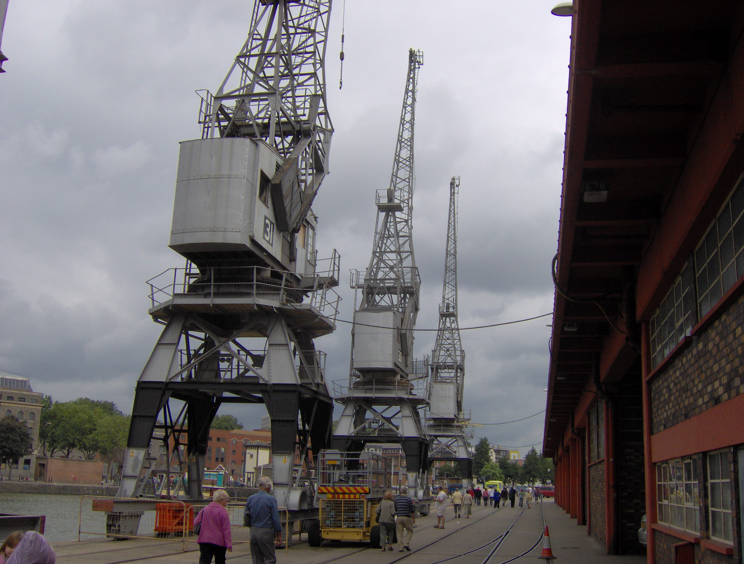 Stothert & Pitt electric cranes at the Bristol Harbour Railway and Industrial Museum. Taken by Rod Ward 20th August 2006